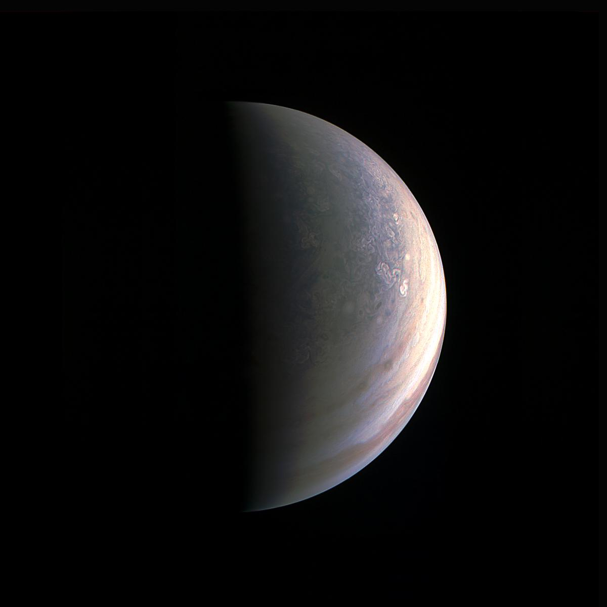 As NASA's Juno spacecraft closed in on Jupiter for its Aug. 27, 2016 pass, its view grew sharper and fine details in the north polar region became increasingly visible. The JunoCam instrument obtained this view on August 27, about two hours before closest approach, when the spacecraft was 120,000 miles (195,000 kilometers) away from the giant planet (i.e., for Jupiter's center). Unlike the equatorial region's familiar structure of belts and zones, the poles are mottled with rotating storms of various sizes, similar to giant versions of terrestrial hurricanes. Jupiter's poles have not been seen from this perspective since the Pioneer 11 spacecraft flew by the planet in 1974. NASA's Jet Propulsion Laboratory, Pasadena, California, manages the Juno mission for the principal investigator, Scott Bolton, of Southwest Research Institute in San Antonio. The Juno mission is part of the New Frontiers Program managed at NASA's Marshall Space Flight Center in Huntsville, Alabama. Lockheed Martin Space Systems, Denver, built the spacecraft. JPL is a division of Caltech in Pasadena. More information about Juno is online at and